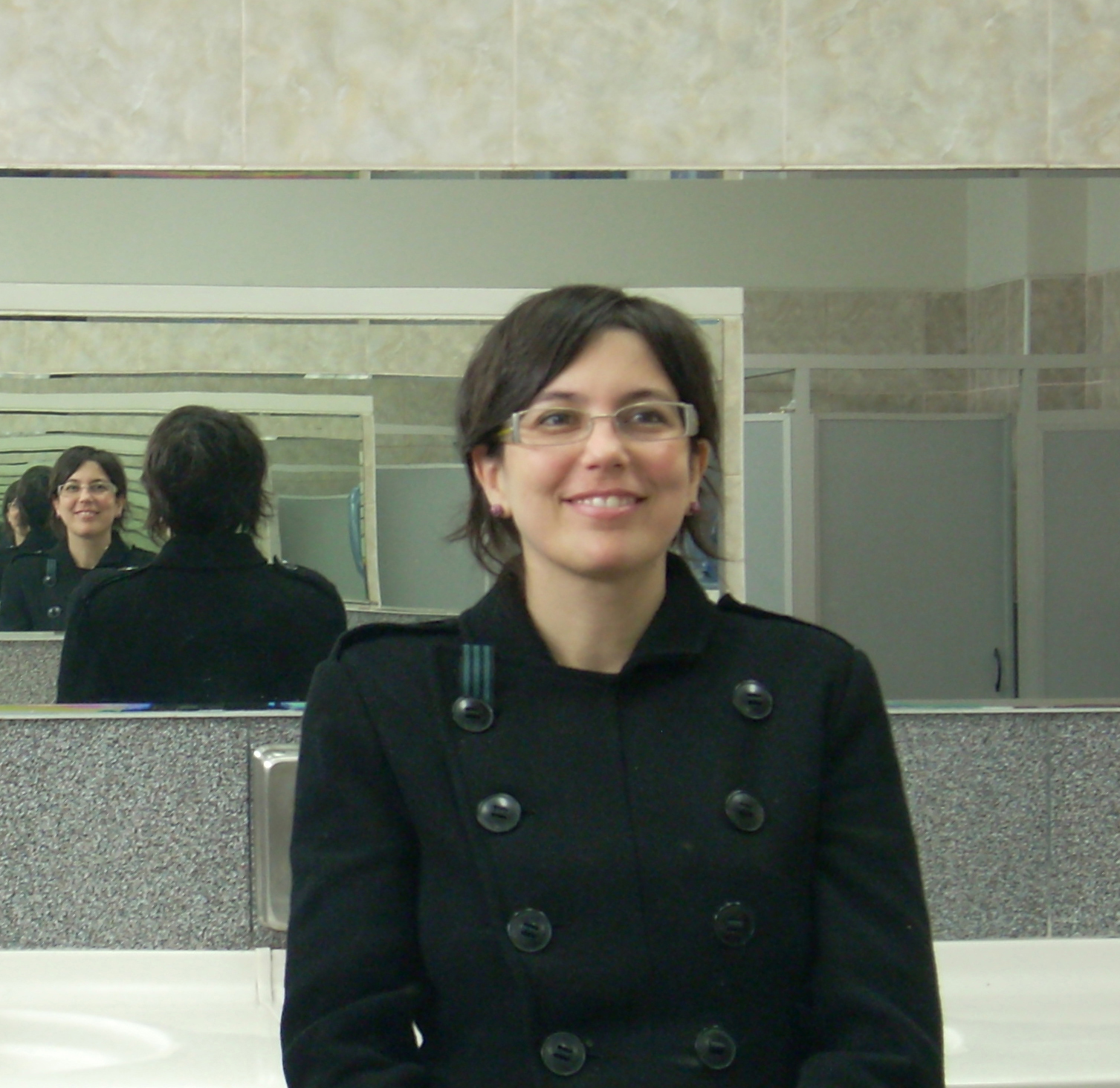 Natalia Iguiñiz y su reflejo durante el rodaje de una de sus piezas en video para la muestra "Pequeñas Historias de Maternidad 2". Fotografía tomada dentro de un baño público en el edificio de E.E.G.G.L.L PUCP hacia finales del año 2007 por Paola Vela.